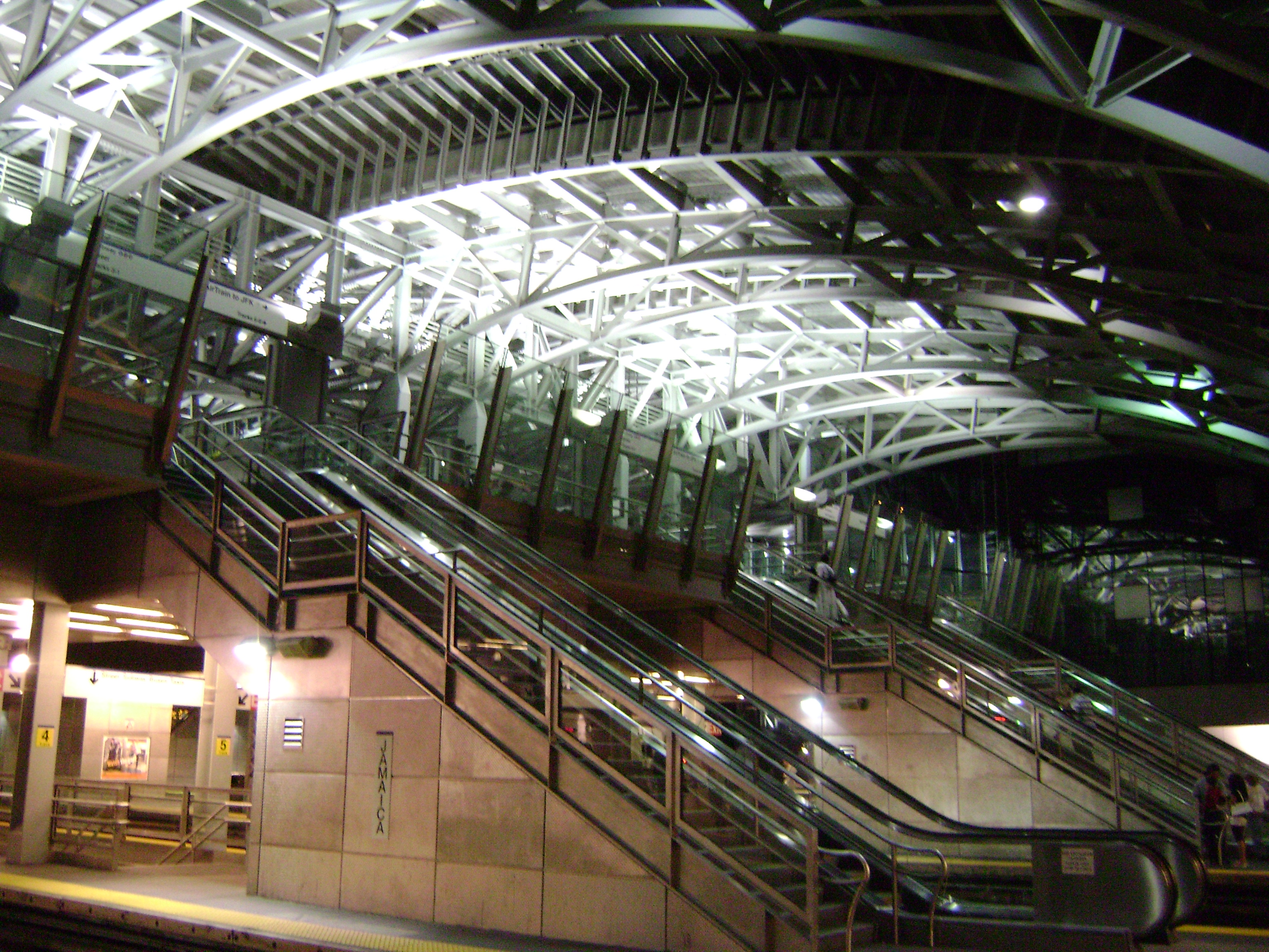 The arch at Jamaica Station.